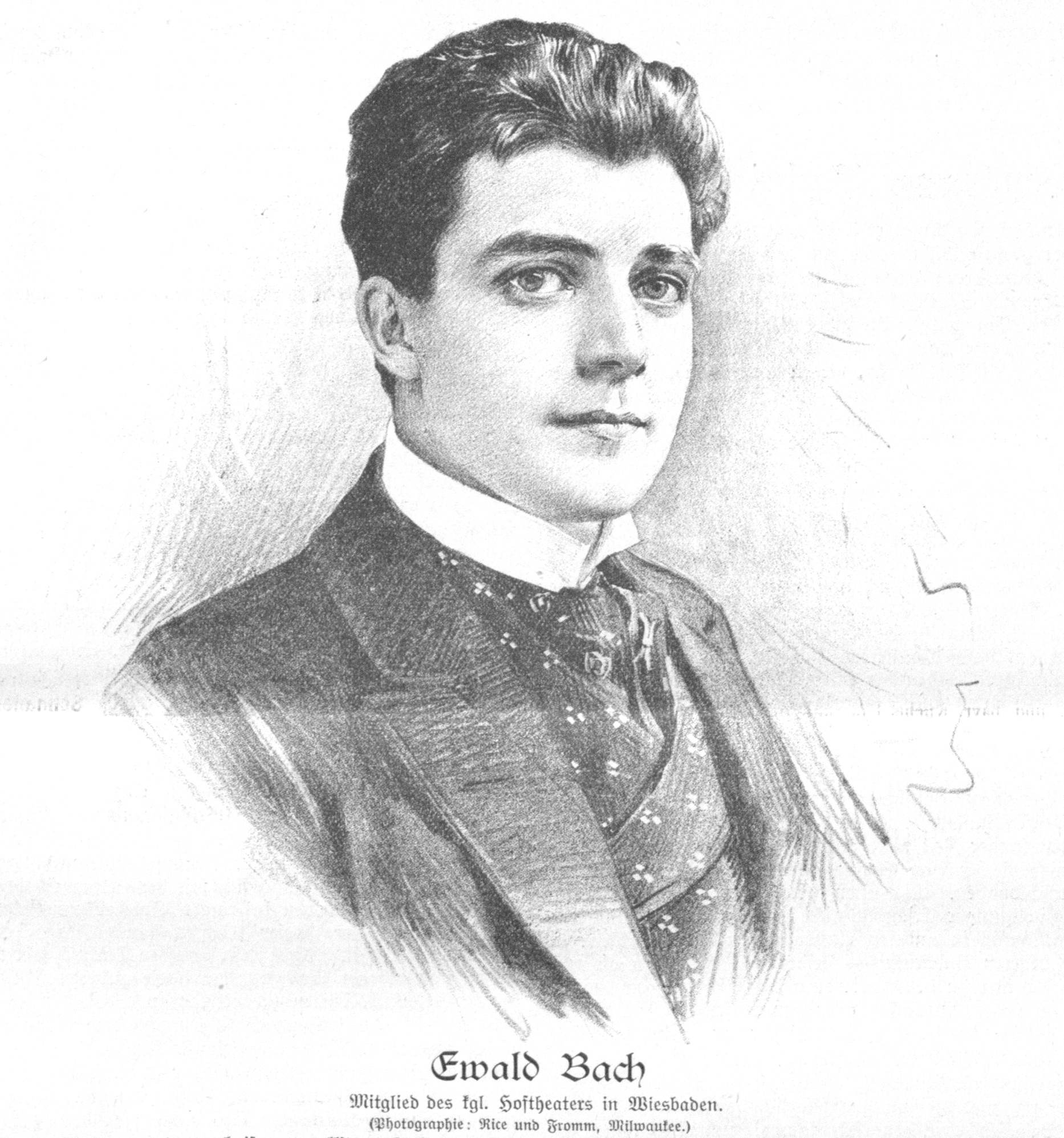 Portrait of Ewald Bach (1871-1920), German actor.